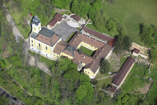 Capuchin monastery and church. Listed ID 7063 and 7064. Aerial photography. Baroque built in 1762-1769. Máriabesnyő-Gödöllő, Pest County, Hungary